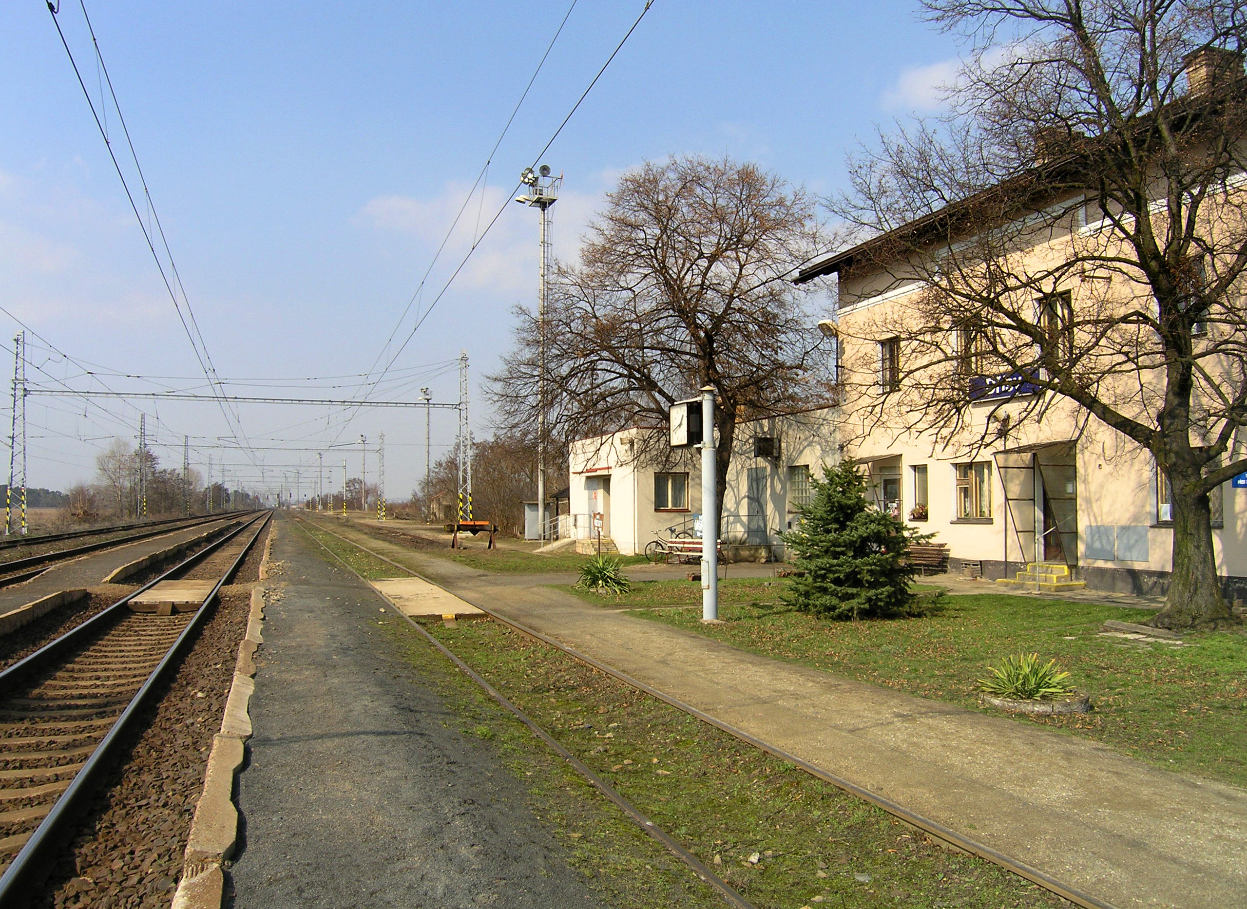 Railway station in Dřísy village, Czech Republic